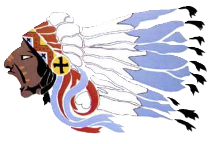 Squadron Insignia of the Lafayette Escadrille